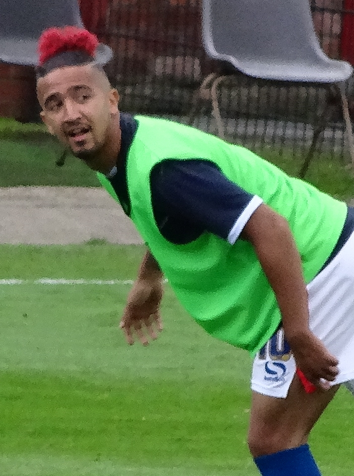 Bastien Héry playing for Carlisle United against York City at Bootham Crescent, York on 19 September 2015